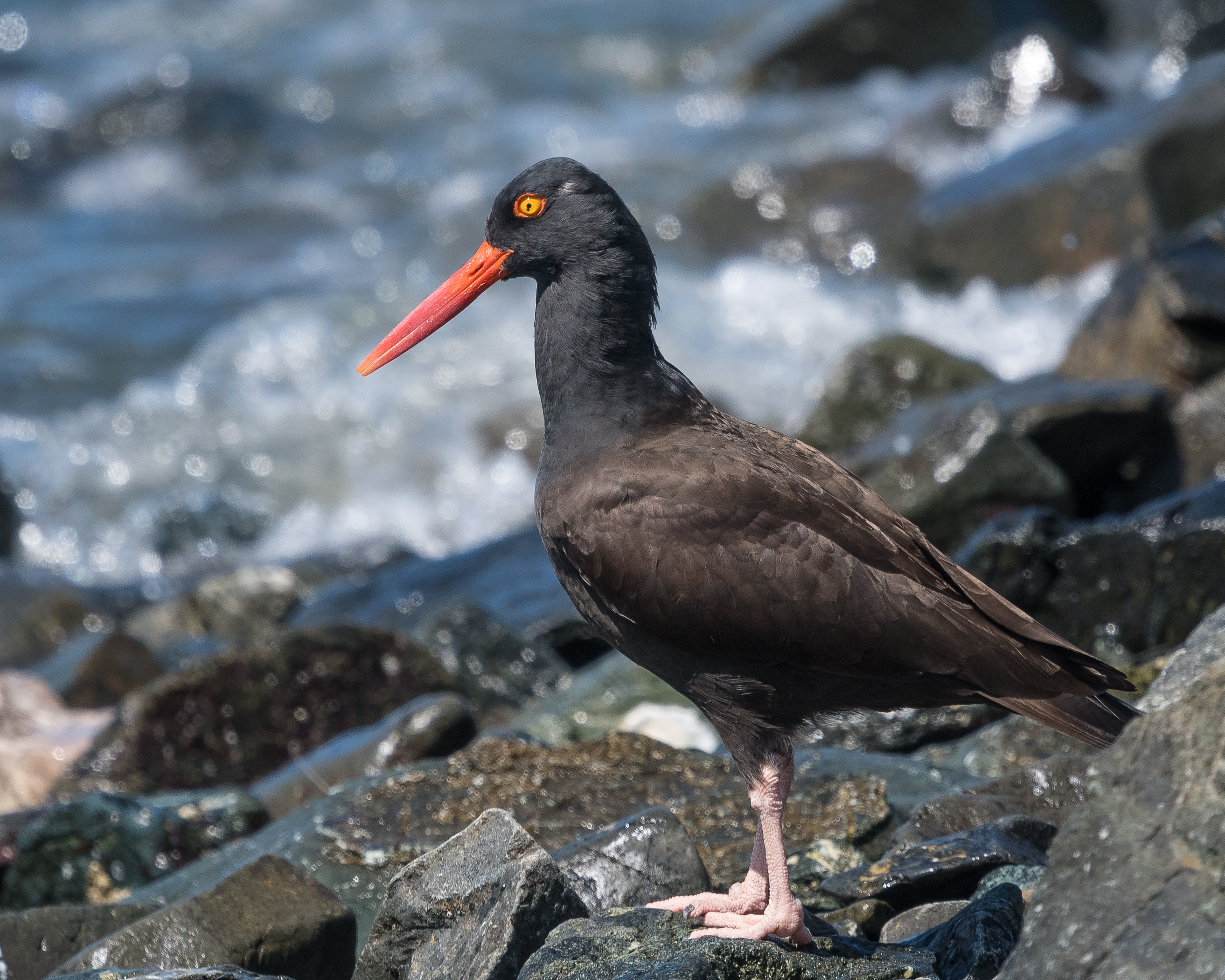 Brooks Island Regional Preserve, Richmond, California This Oystercatcher has an eye fleck in it's eye. There is a theory that female Oystercatchers have full flecks and males have either none or only partial flecks. After studying other photos I took of this bird, I think this fleck is only a partial fleck. I'm guessing it's a male.